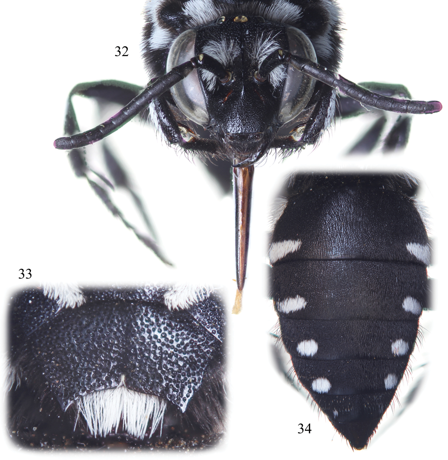 Female of Thyreus aistleitneri sp. n. from Brava. 32 Facial aspect 33 Detail of mesoscutellum 34 Detail of metasoma in dorsal view.